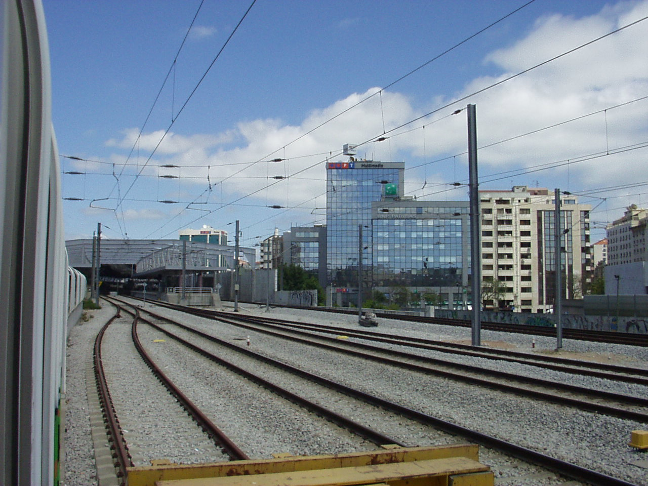 Entrecampos train station in Lisbon